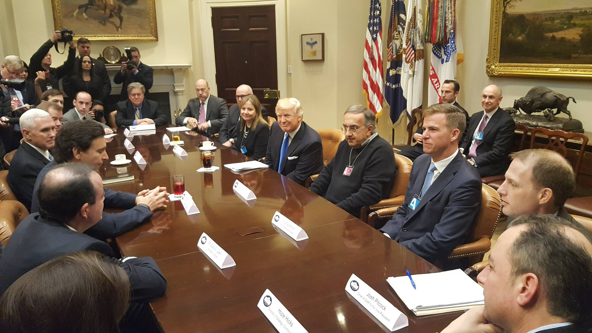 President Donald J. Trump and Vice-President Mike Pence met with key automobile industry leaders in the Roosevelt Room this morning to discuss how we can revive the automobile industry and boost American jobs. Buy American and hire American!